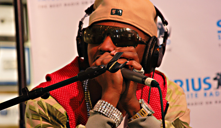 Def Jam recording artist Fabolous during the "Studio 40: Backstage Pass" performance & album listening party at Sirius Satellite Radio.Diamonds In My Damn Chain